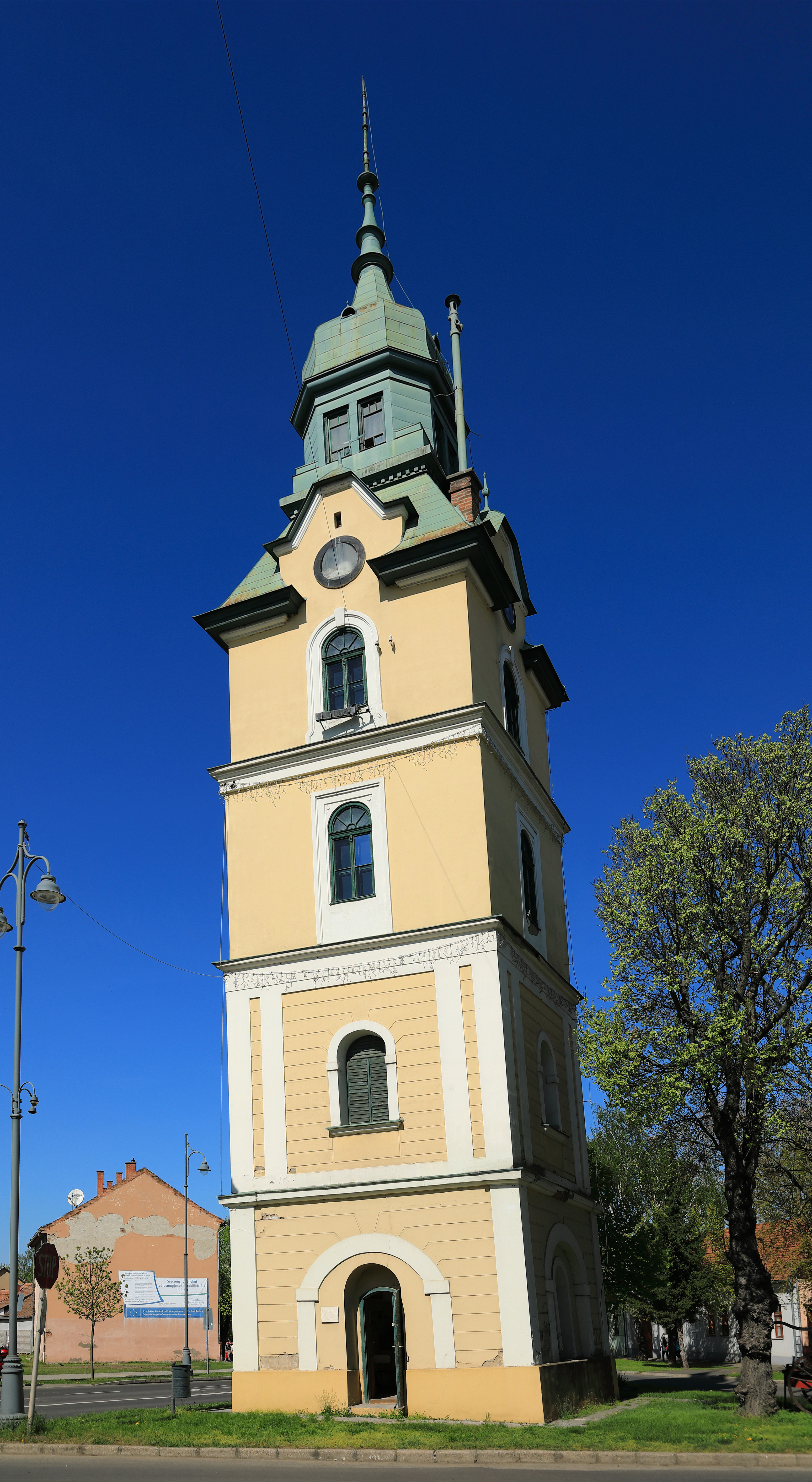 The Szécsény Fire Tower built in the 18th century and got its current shape in 1893. It has a lean of 3 degrees, 0,9° less than the fammous Leaning Tower in Pisa.